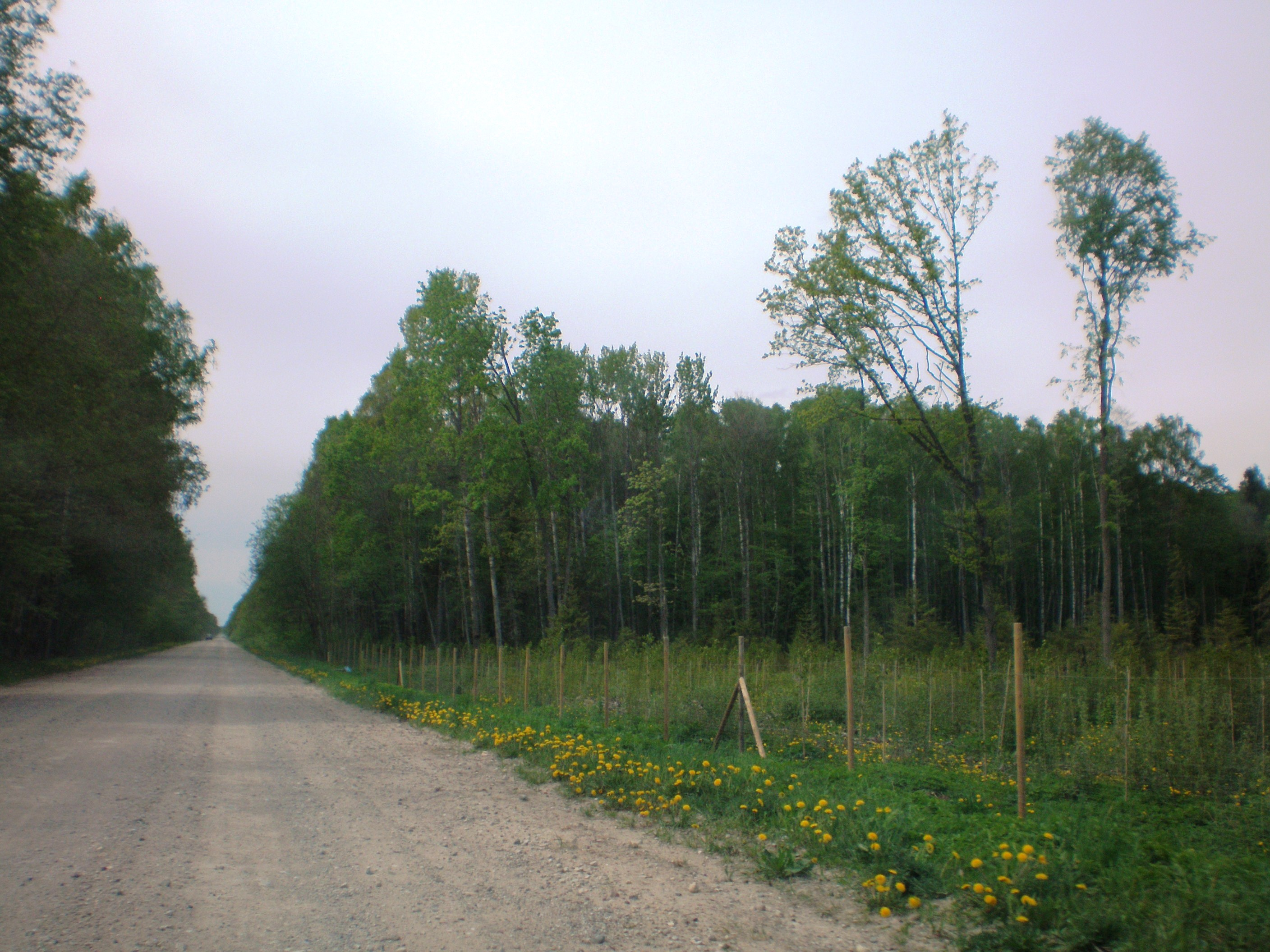 Krakės forest, Kėdainiai district, Lithuania